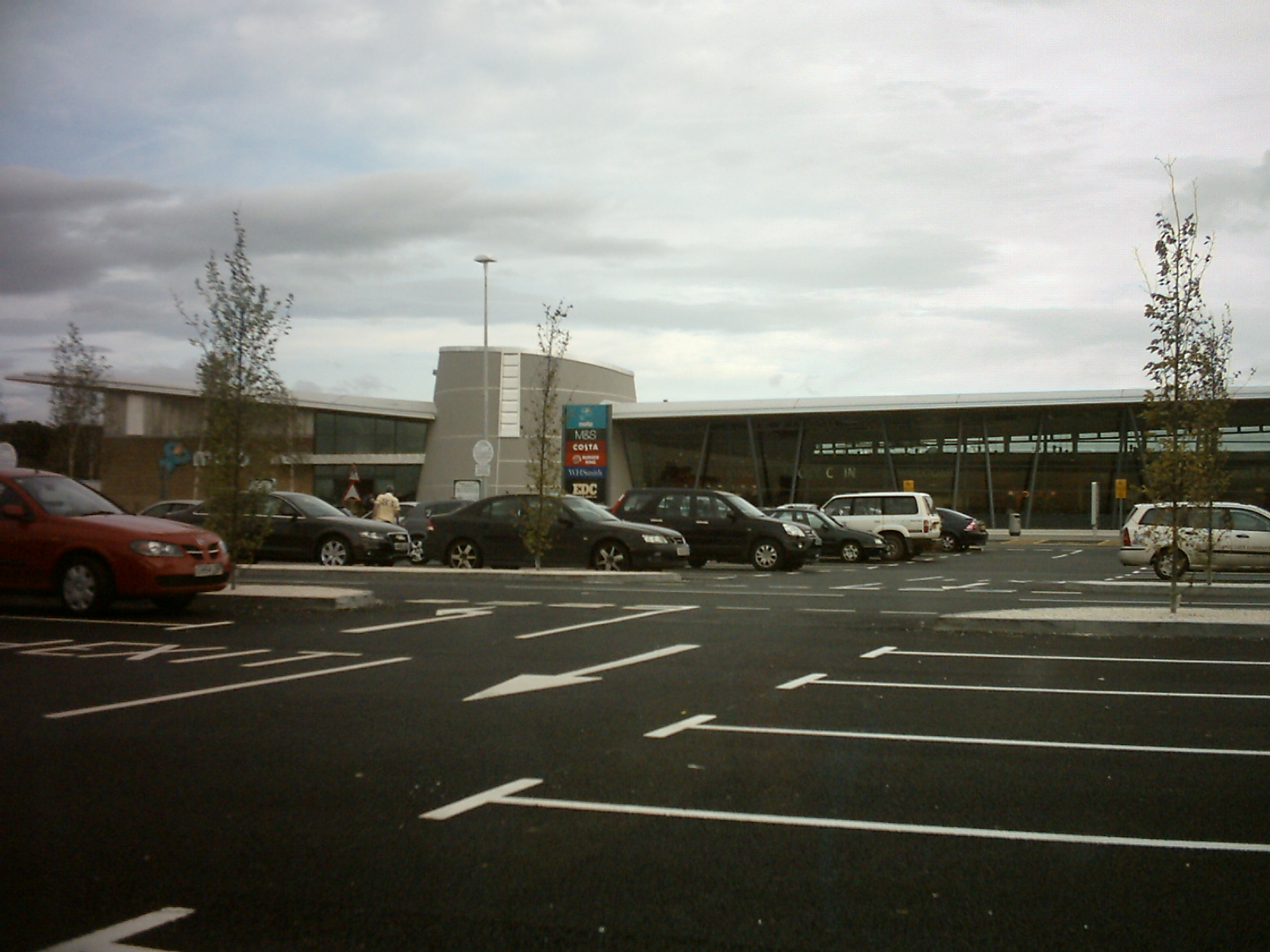 Wetherby Serice Station, on the A1(M), run by Moto Hospitality